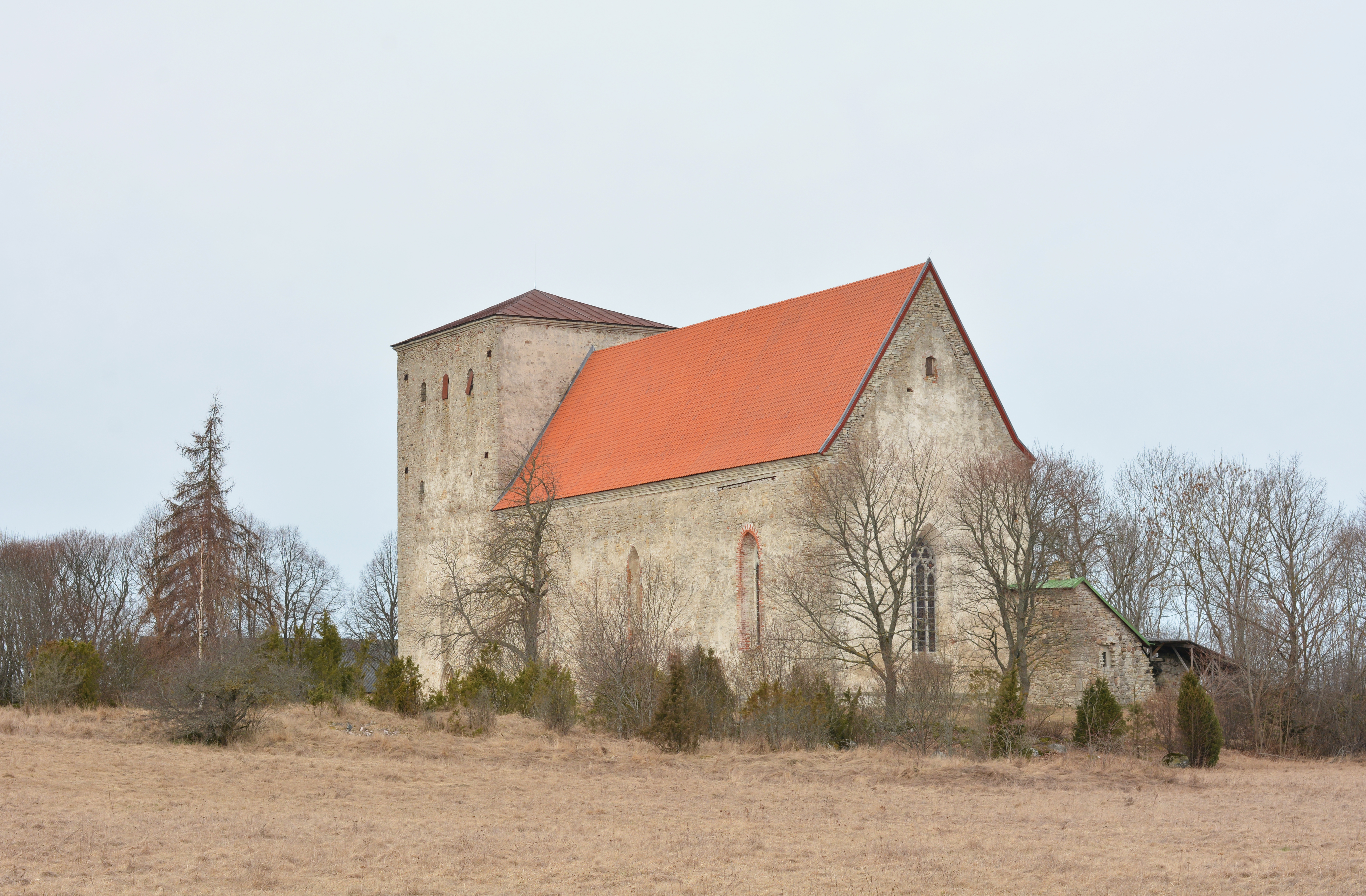 Pöide church in Saaremaa, Estonia. Built in 13th and 14th century.